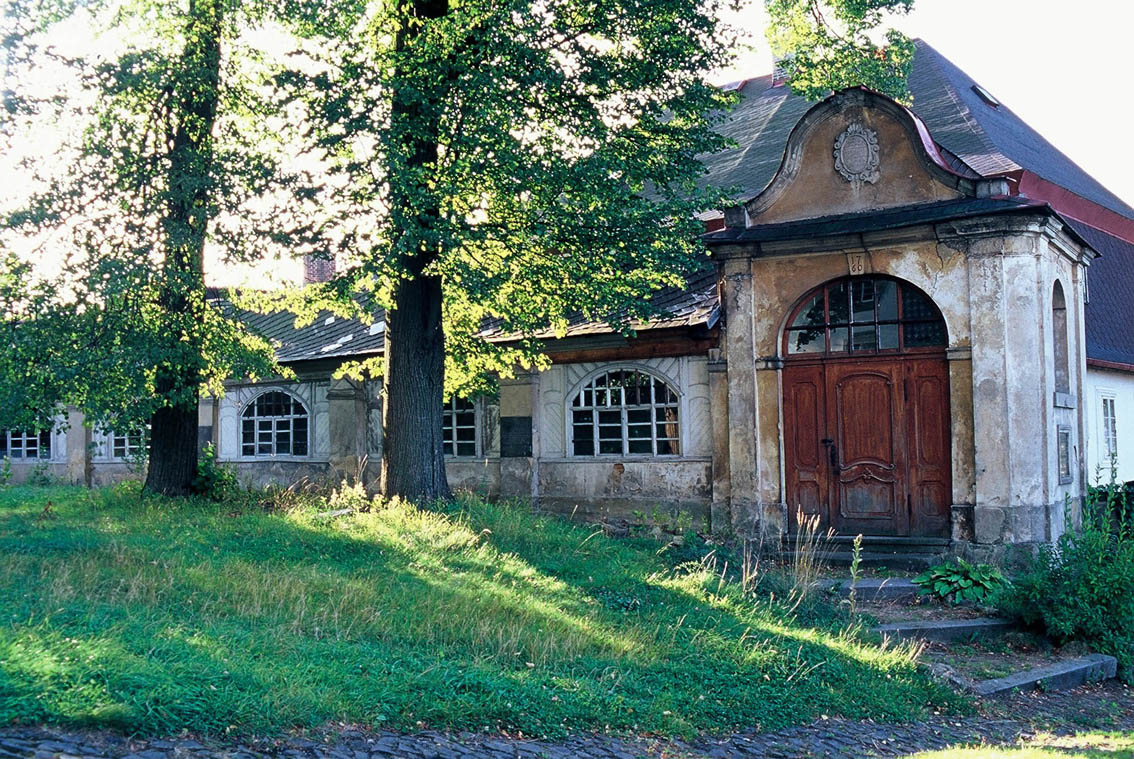 Ambit of the St. George Church in Chřibská with a chapel from the 1762